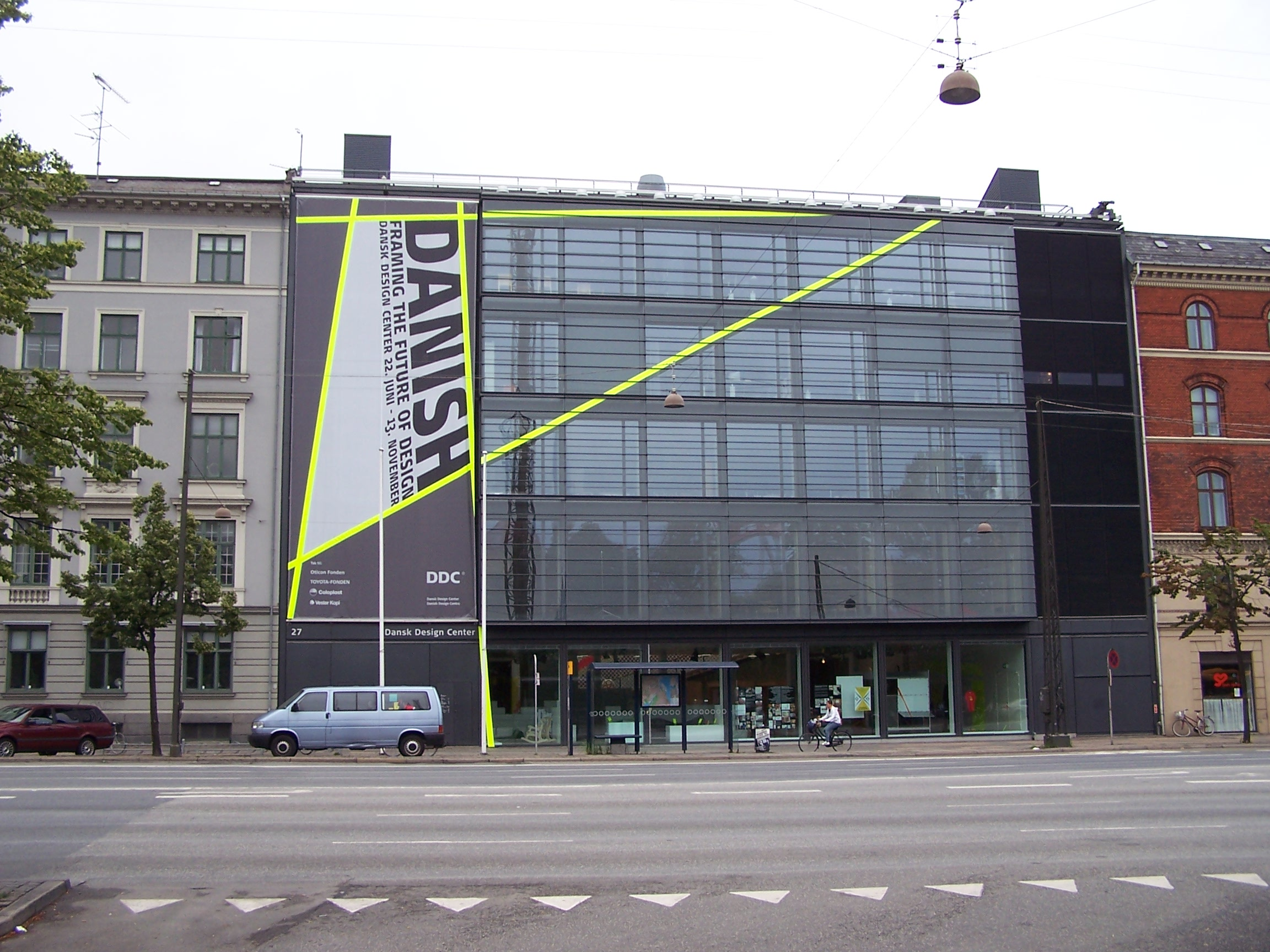 Dansk Design Center, Copenhagen.